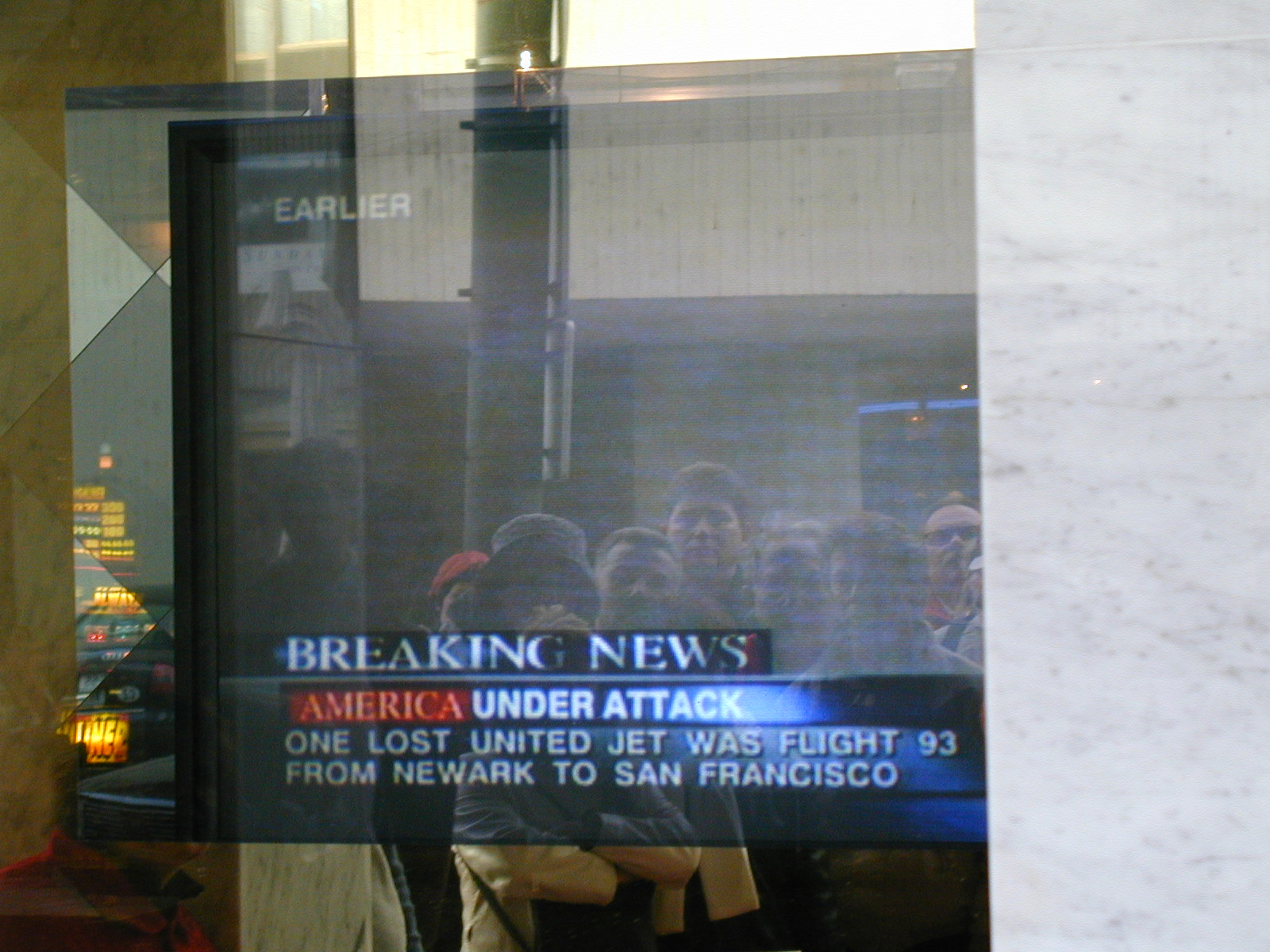 "This pictures is taken outside a Casino in Prague. An international crowd gathered around the silent screen trying to understand what had happened in a range of languages. Appropriately you can barely make out any details on the screen, only the reflections of the crowd."